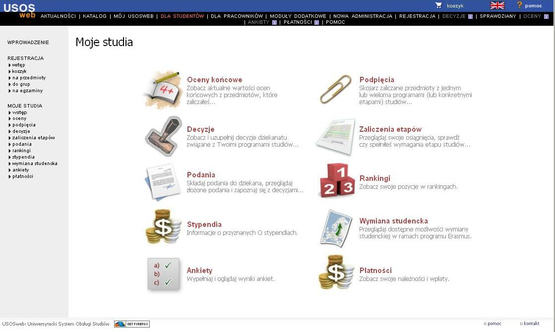 Screenshot from USOSWeb, University of Warsaw's online aplication for management of student affairs